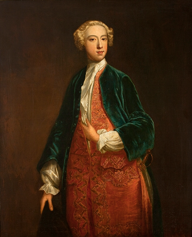 Portrait of Horace Walpole (1735). Currently in the Medeiros e Almeida House Museum (Casa-Museu Medeiros e Almeida) in Lisbon, Portugal.